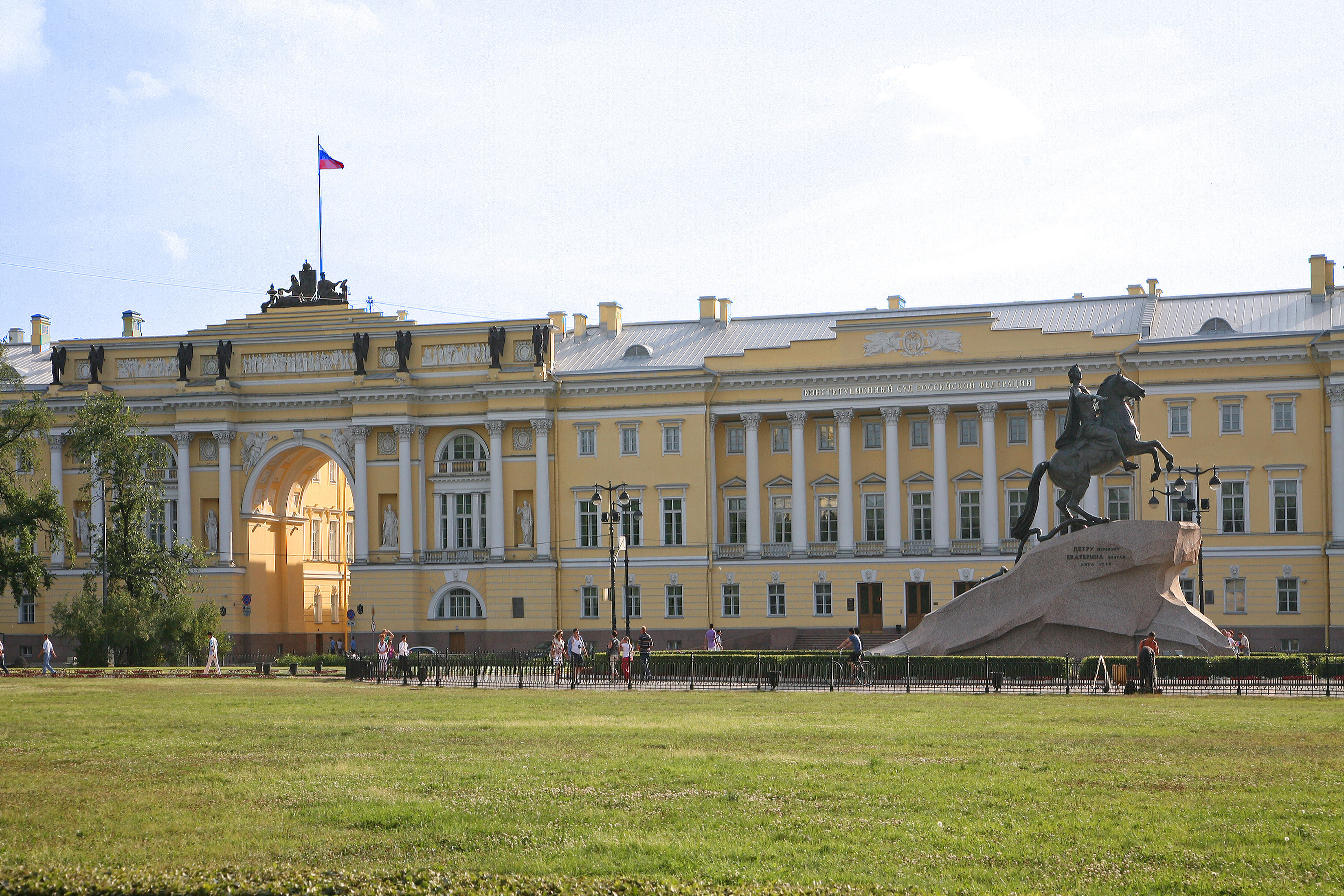 The equestrian statue of Tsar Peter the Great (also called the "Bronze Rider") on Senate Square is the symbol of Saint Petersburg. The monument was created by the sculptor Etienne Falconet and it was opened in 1782. The rider figure stands on a 1,600-ton granite base. The client was the Tsarina Catherine the Great. In the background the buildings Senate and Senod.